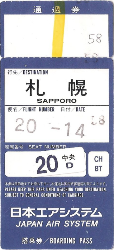 Boarding Pass of Japan Air System